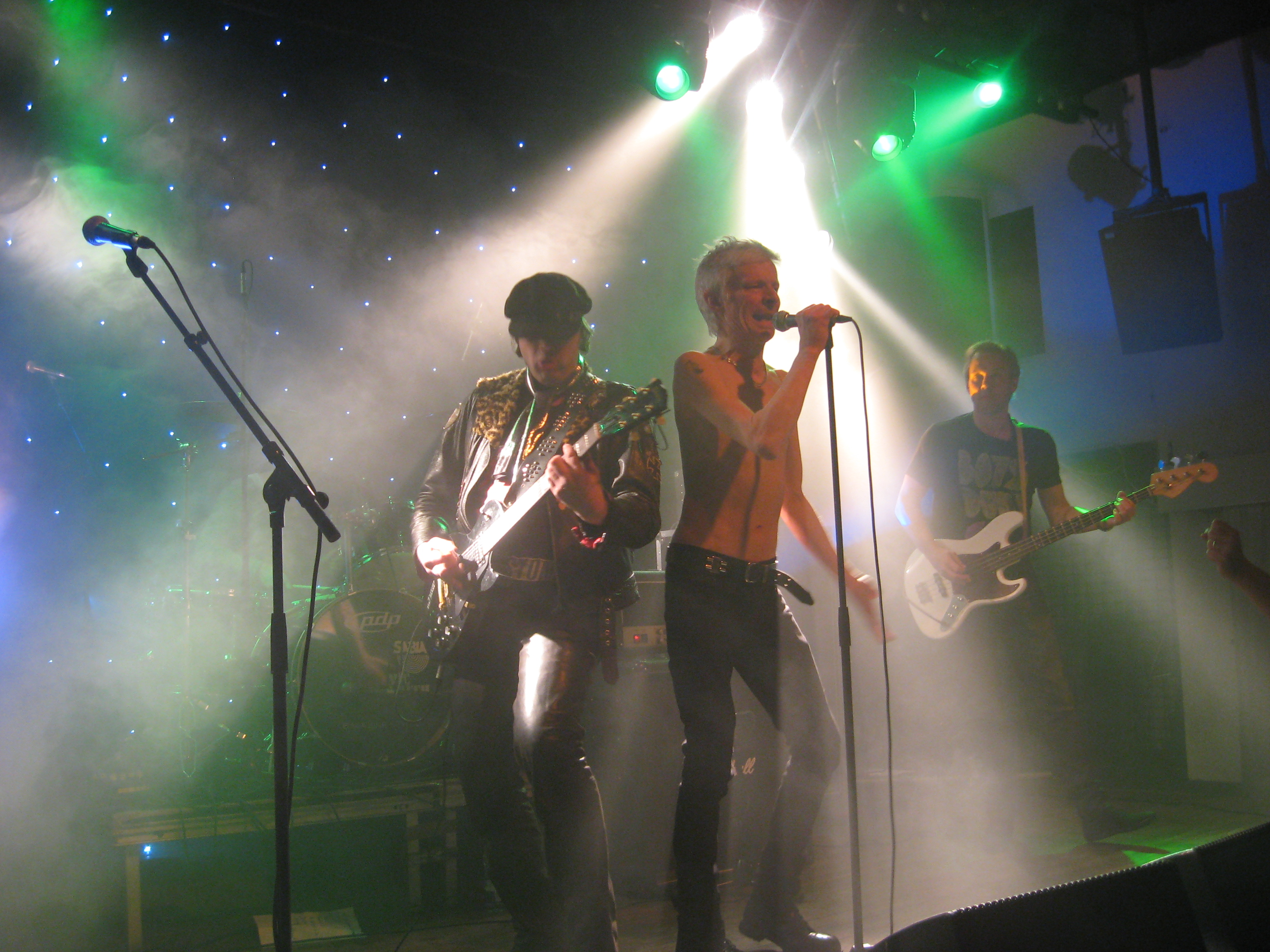 Bitch Boys playing at Punkgala in Stockholm April 2010.